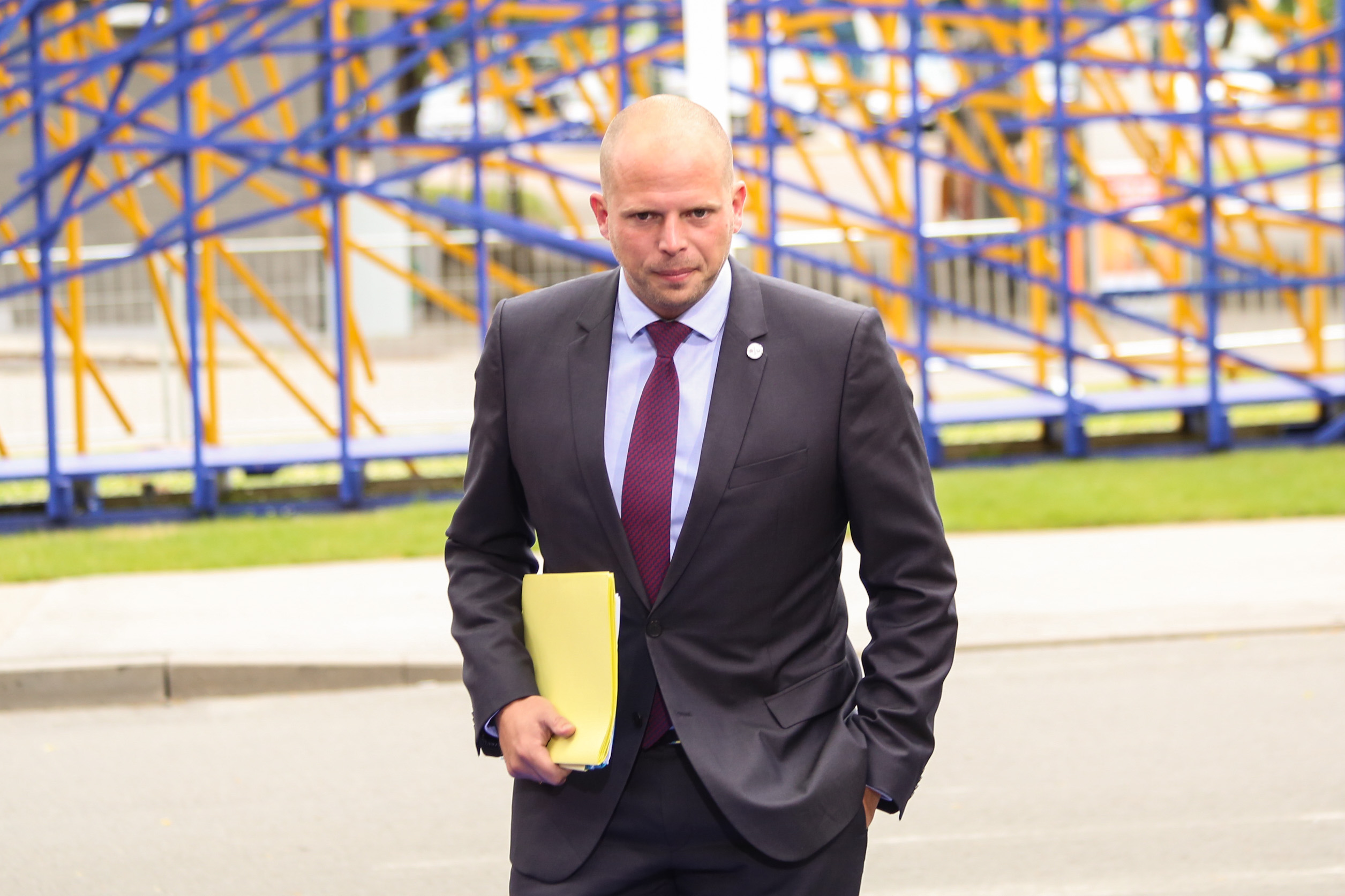 Theo Francken, State Secretary for Asylum Policy and Migration, Government, Belgium